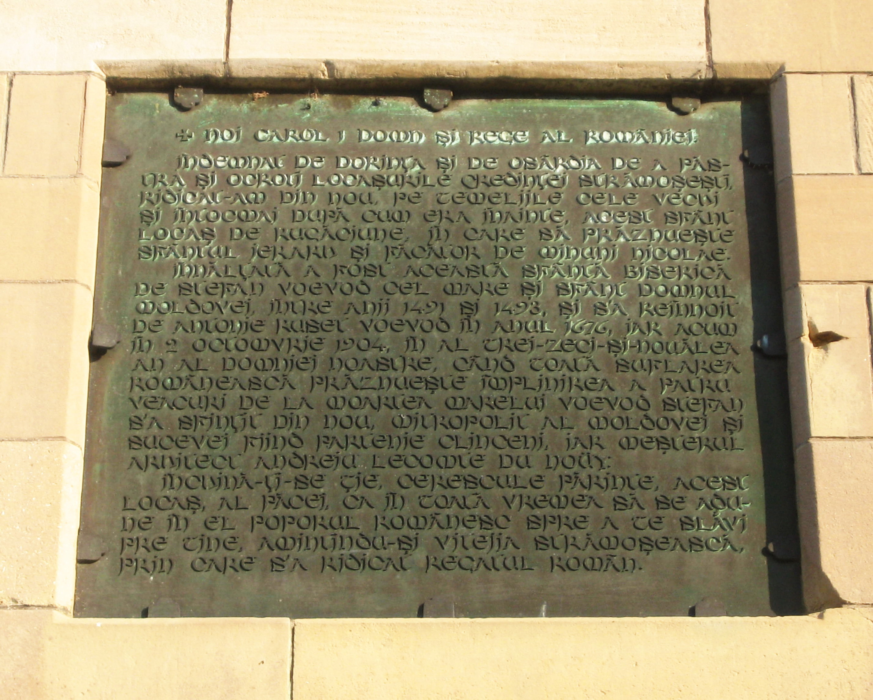 Biserica Sf. Nicolae Domnesc din Iași, România